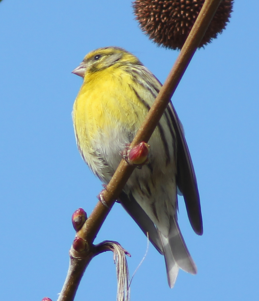 A male European Serin (Serinus serinus) in Madrid (Spain).